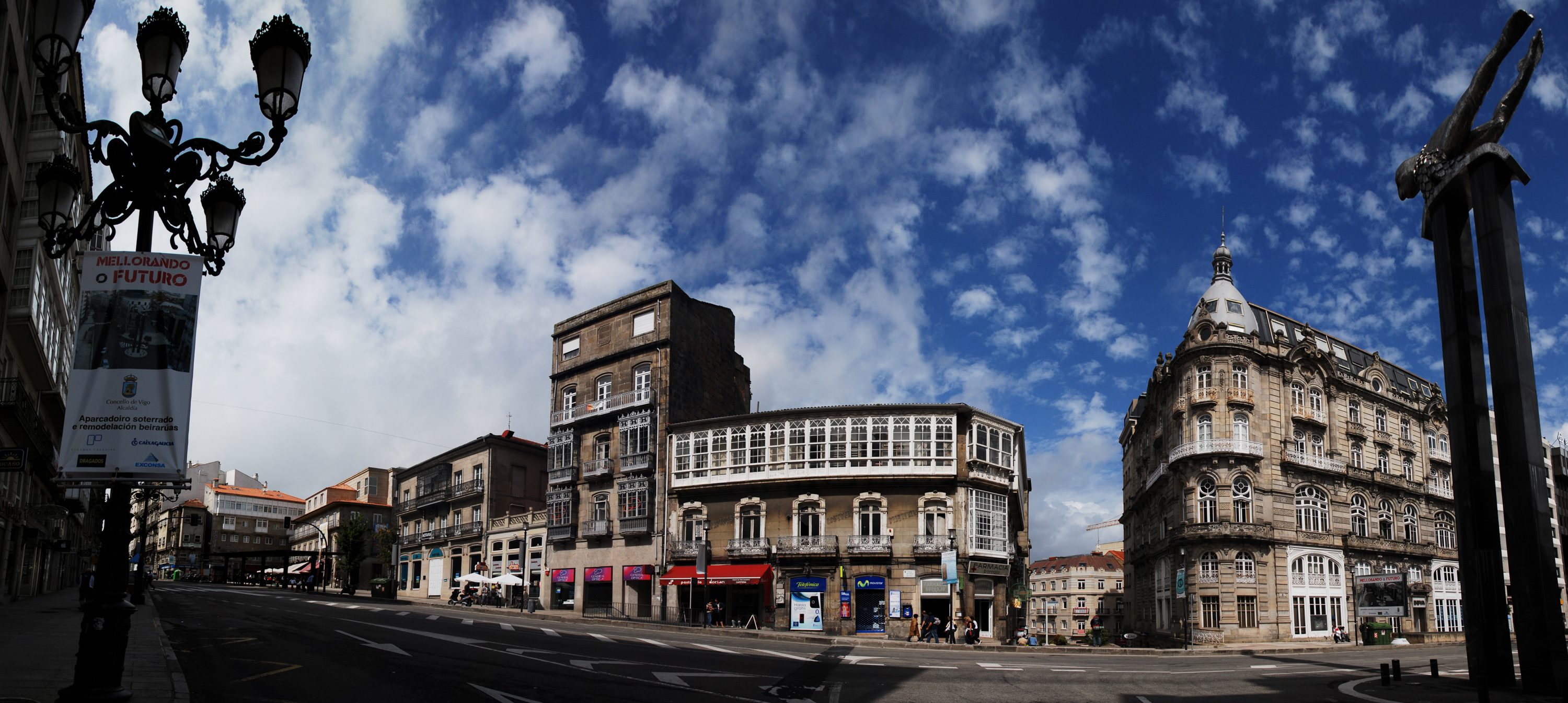 ВґEl SirenoВґ (male mermaid), sculpture by Francisco Leiro, intersection of Praza Porta do Sol / RГєa Doctor Cadaval / RГєa Policarpo Sanz (panoramic). Vigo, Galicia, Spain,Southwestern Europe.